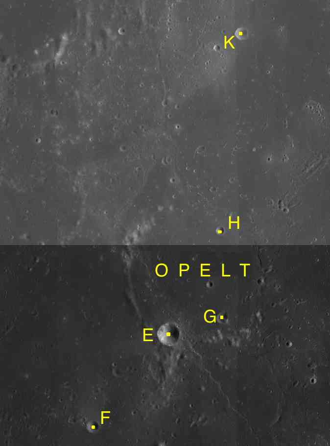 Parts of the charts LAC-76, LAC-94 used for the presentation